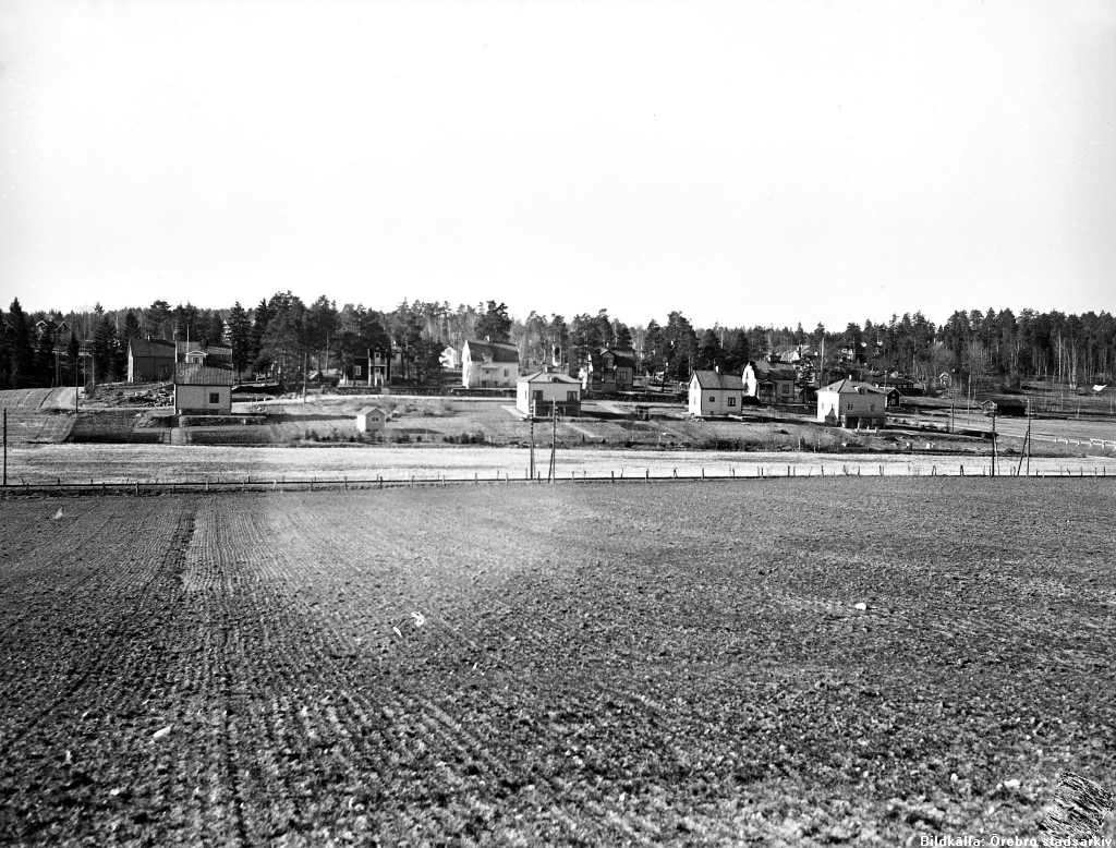 The small village Brickeberg, today a part of Örebro, Sweden